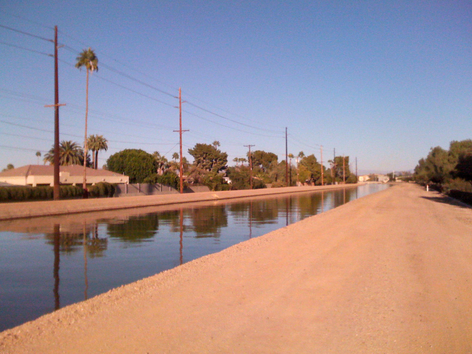 Bike path along the Crosscut Canal